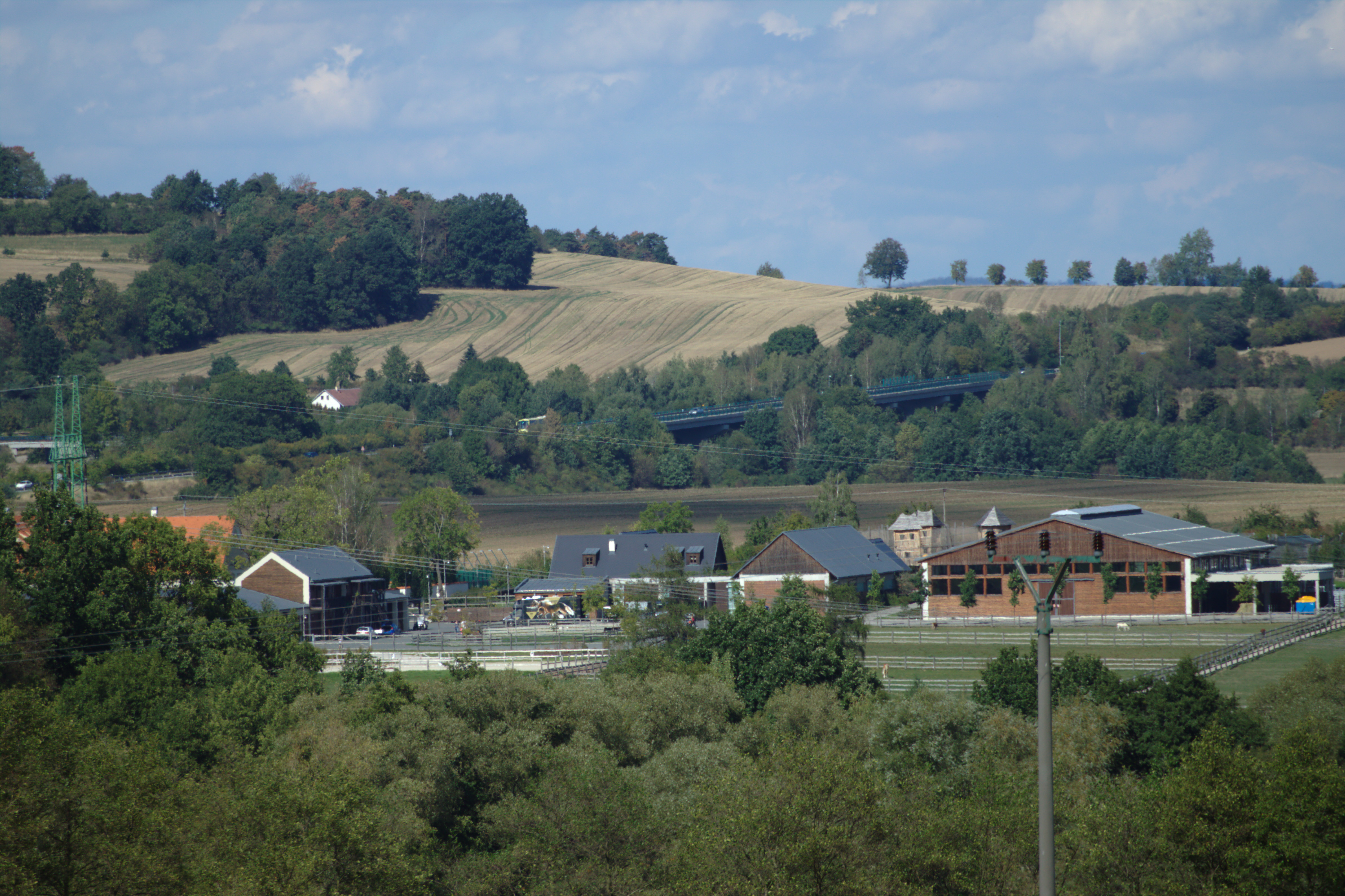 View of the Čapí hnízdo farm near Olbramovice, Central Bohemia, CZ